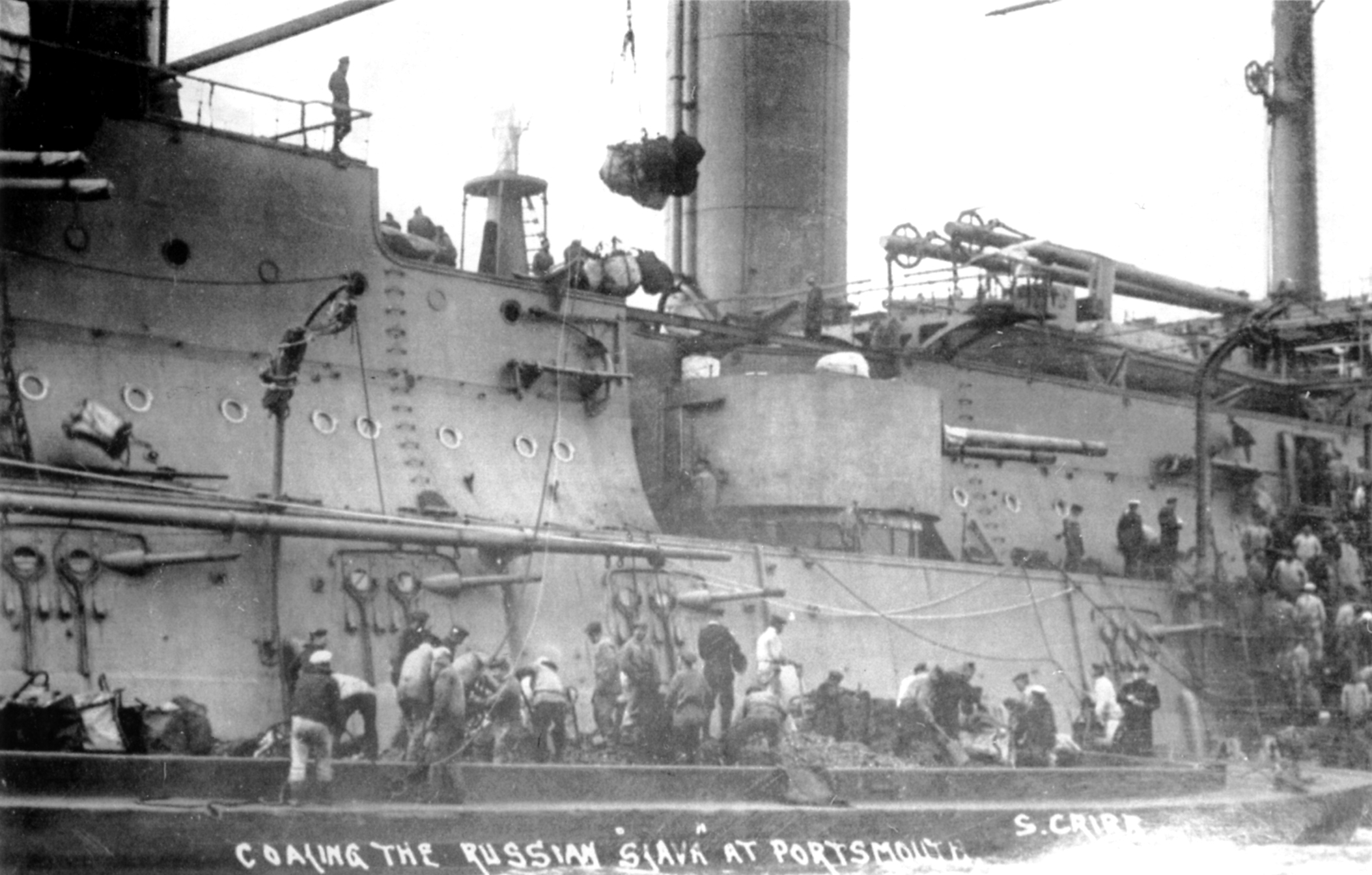 The Imperial Russian battleship «Slava» in the United Kingdom.